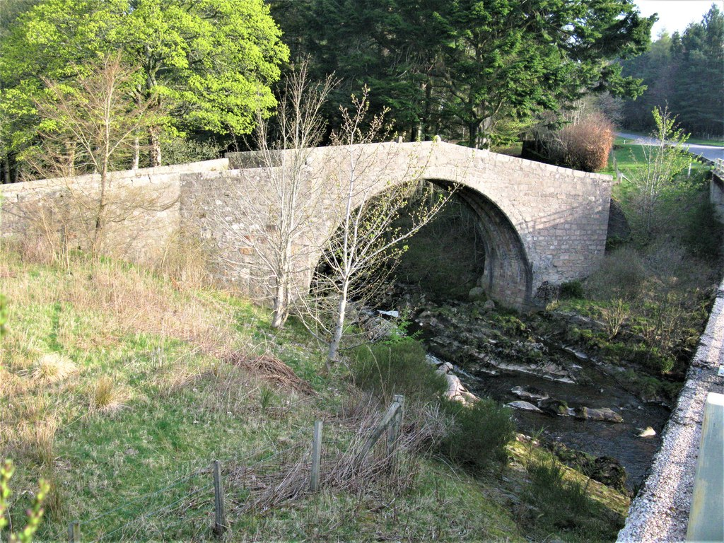 Bridge of Dye, beside the B974